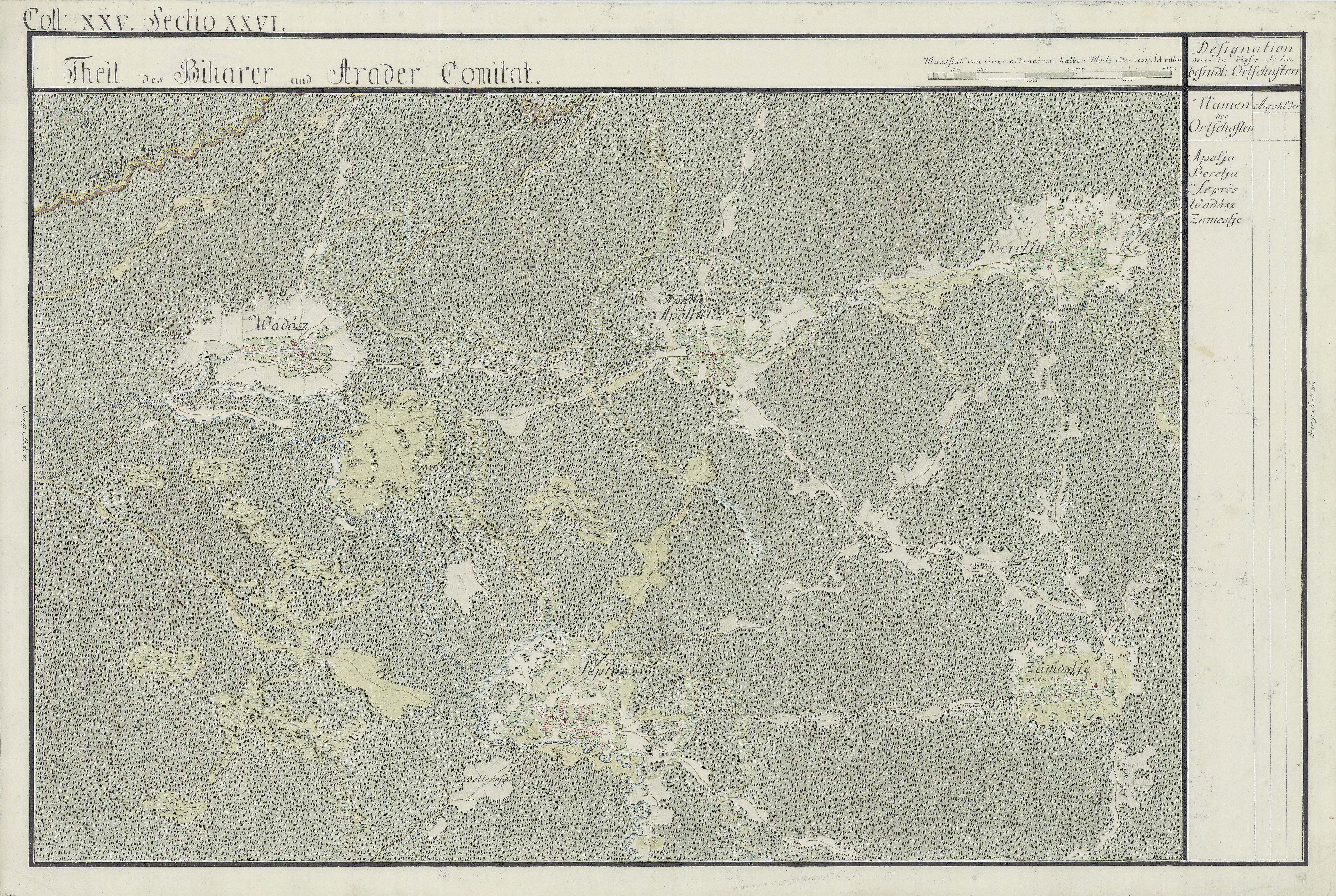 Kingdom of Hungary, 1782-85. Josephinische Landesaufnahme pg.25-26. Counties shown on the map: 1. Bihar County 2. Arad County